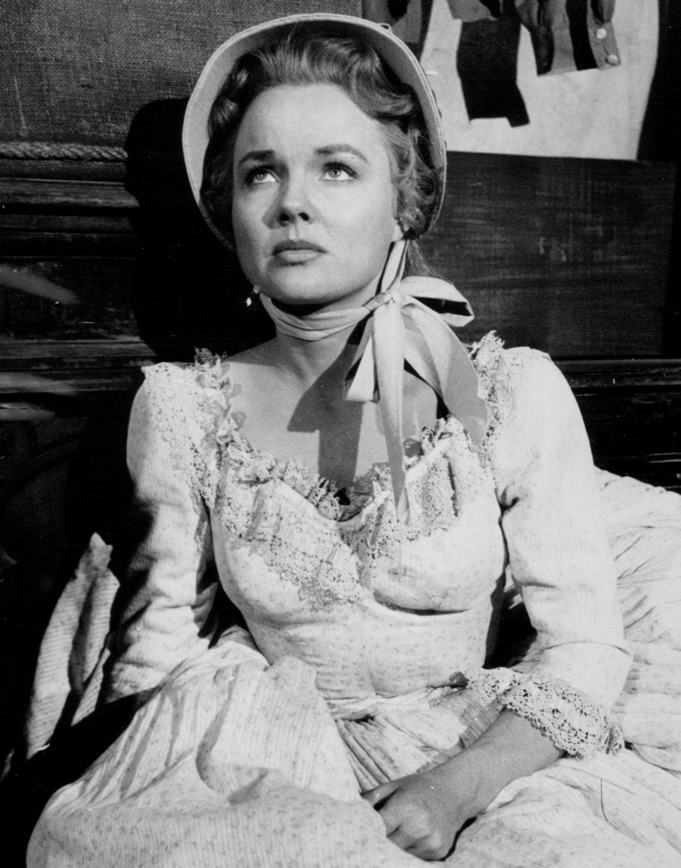 Photo of Wanda Hendrix as a guest star on the television series Wagon Train. The item has no copyright markings on it as can be seen in the links above.